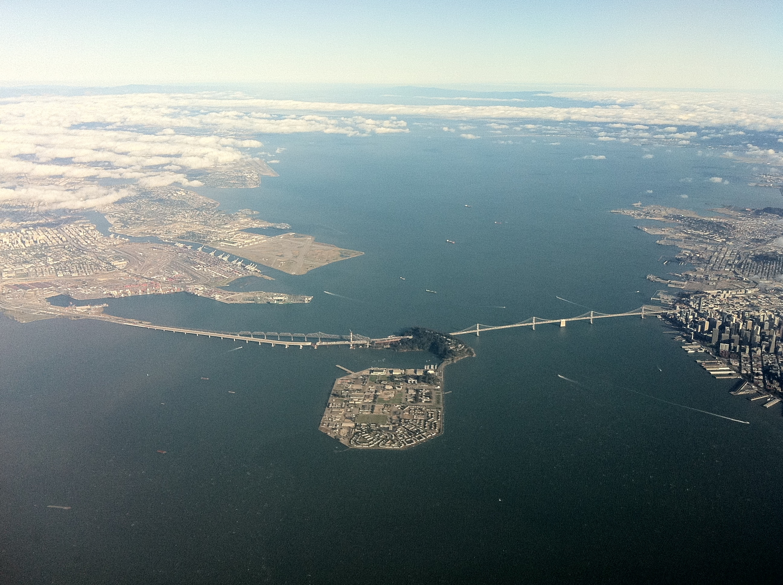 Aerial view of the San Francisco Bay with the Bay Bridge in foreground.